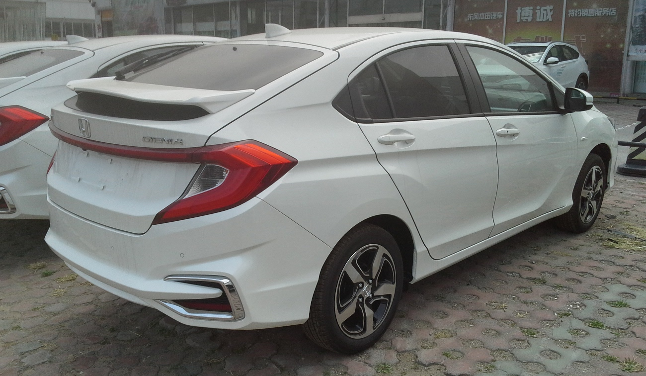 Honda Gienia photographed in Beijing, China.